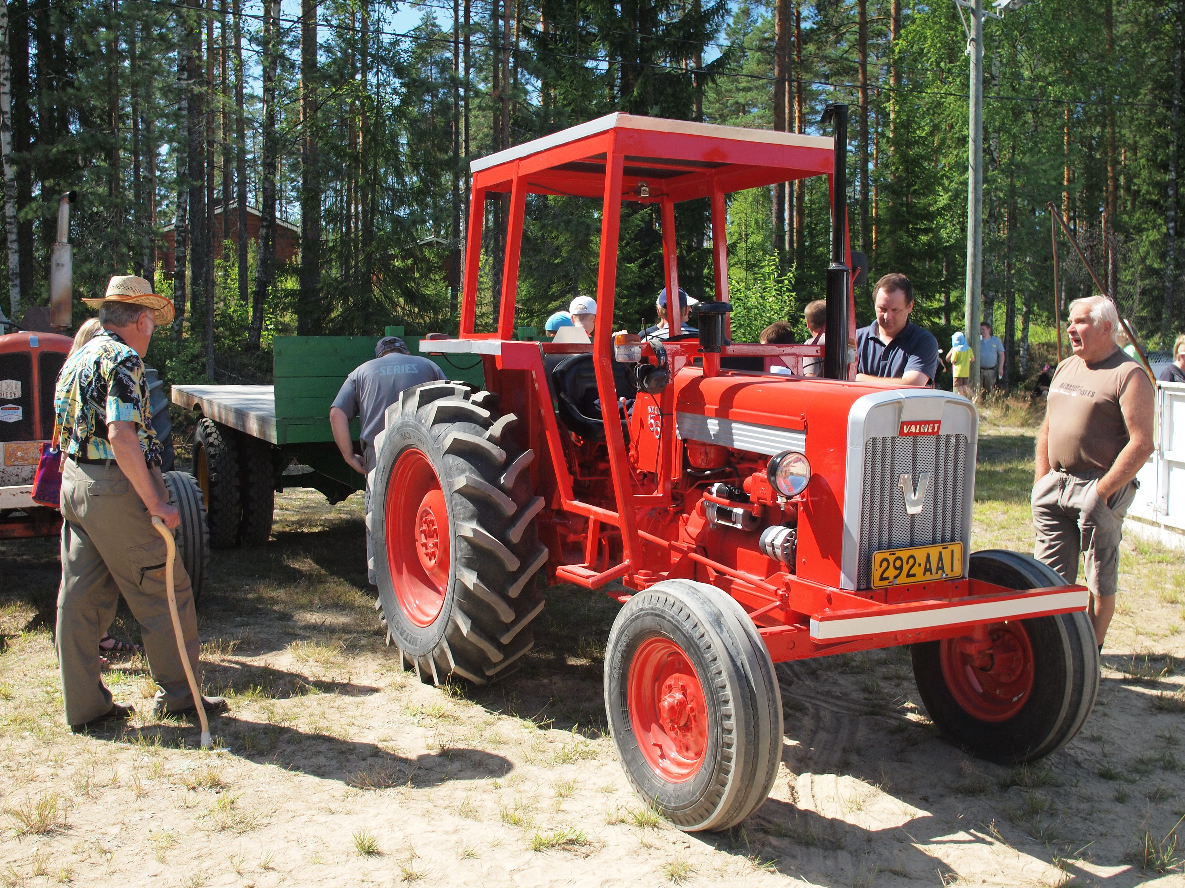 Valmet 565 with a cabin of some sort and a trailer.